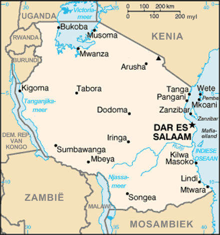 An Afrikaans map of Tanzania.